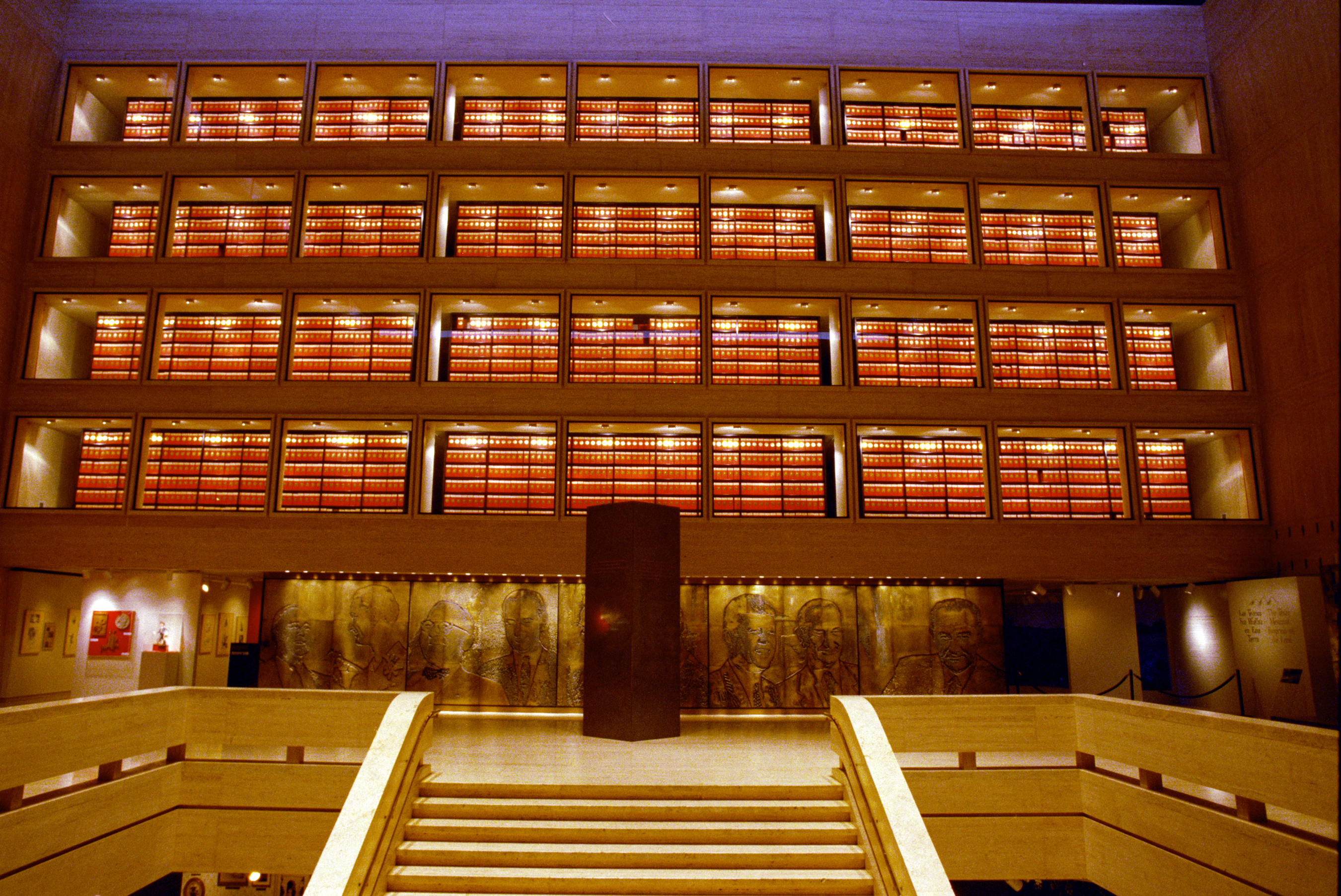 The Lyndon Baines Johnson Library and Museum interior.